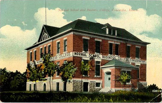 Original Concordia Normal School and Business College building. First published before 1923, now in public domain